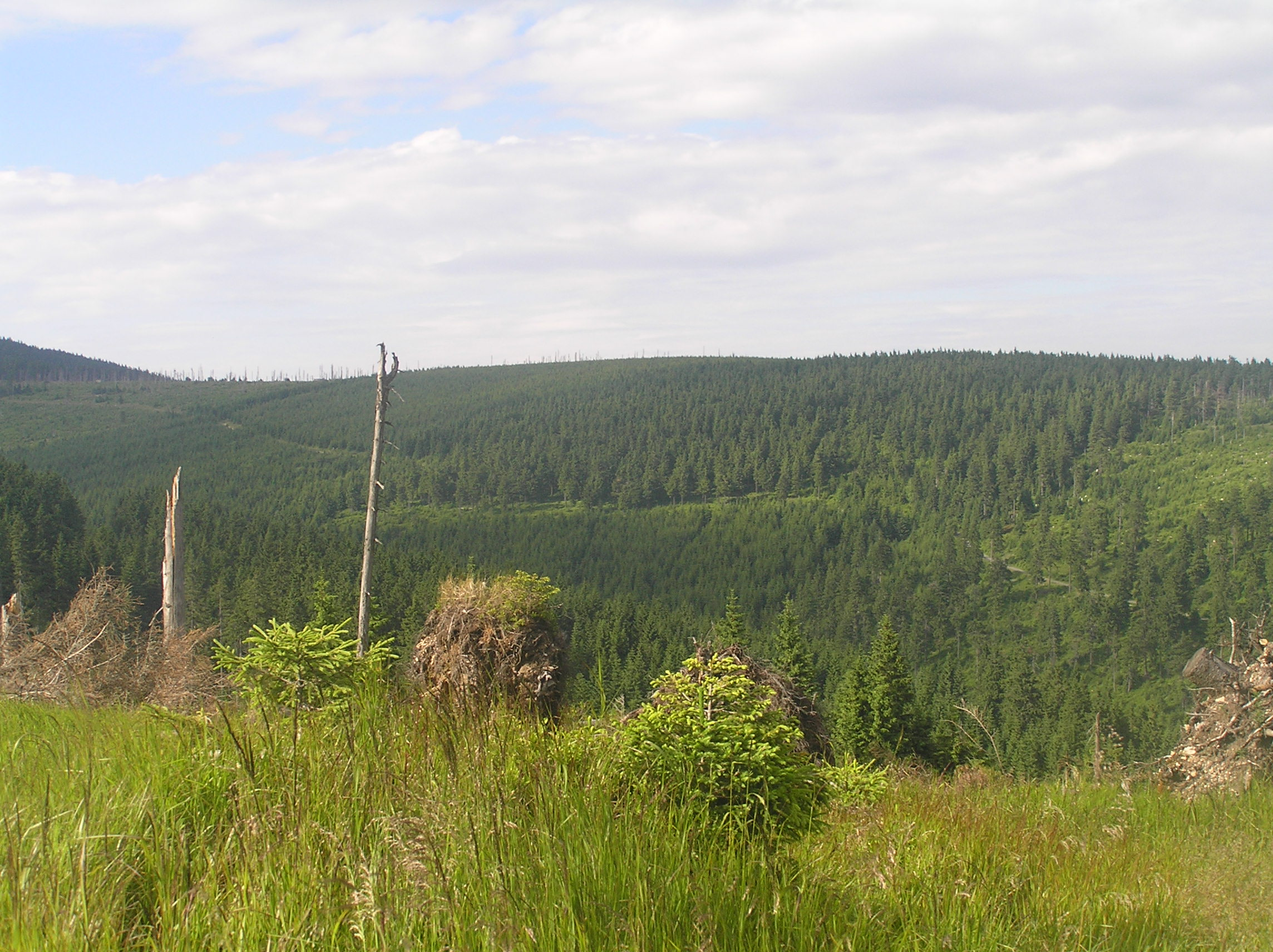 Tetřeví hora, Králický Sněžník Mountains, Czech Republic